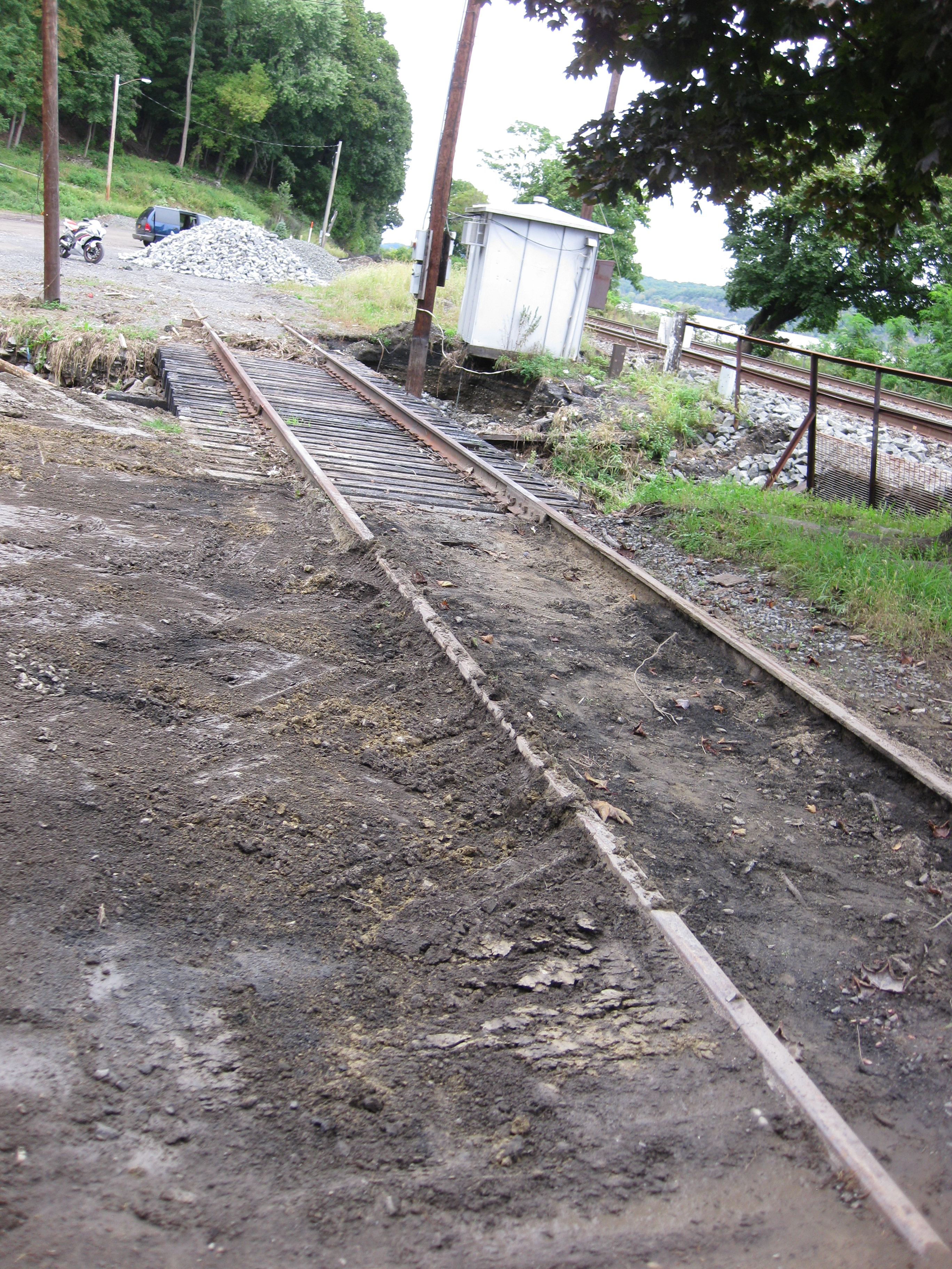 This is the abandoned railroad siding immediately adjacent to the historic Milton Railroad Station.